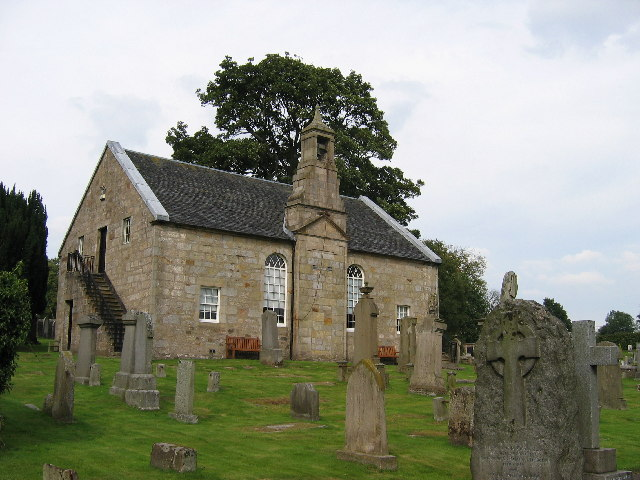 Baldernock Parish Church, near Milngavie, East Dunbartonshire